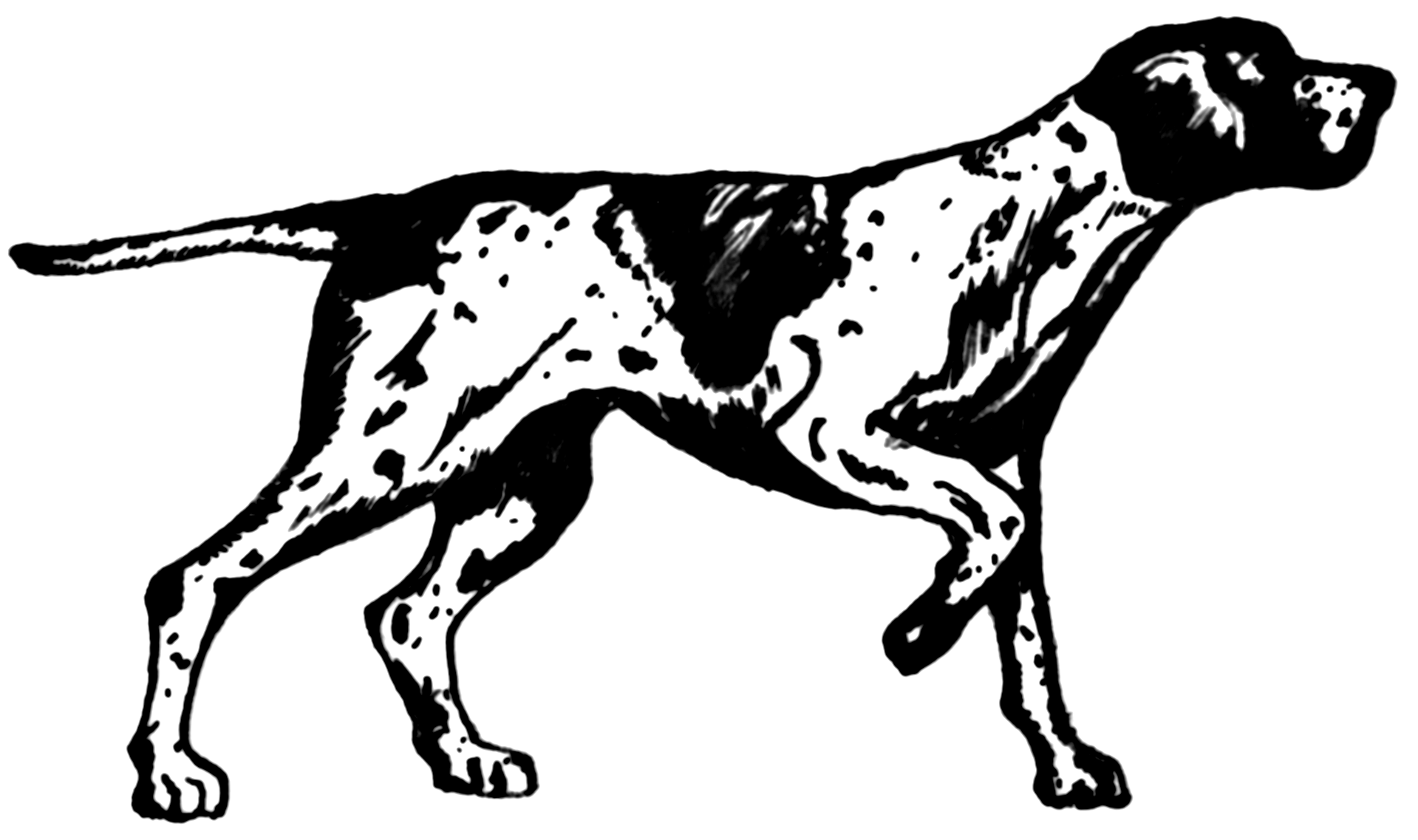 Line art drawing of pointer.